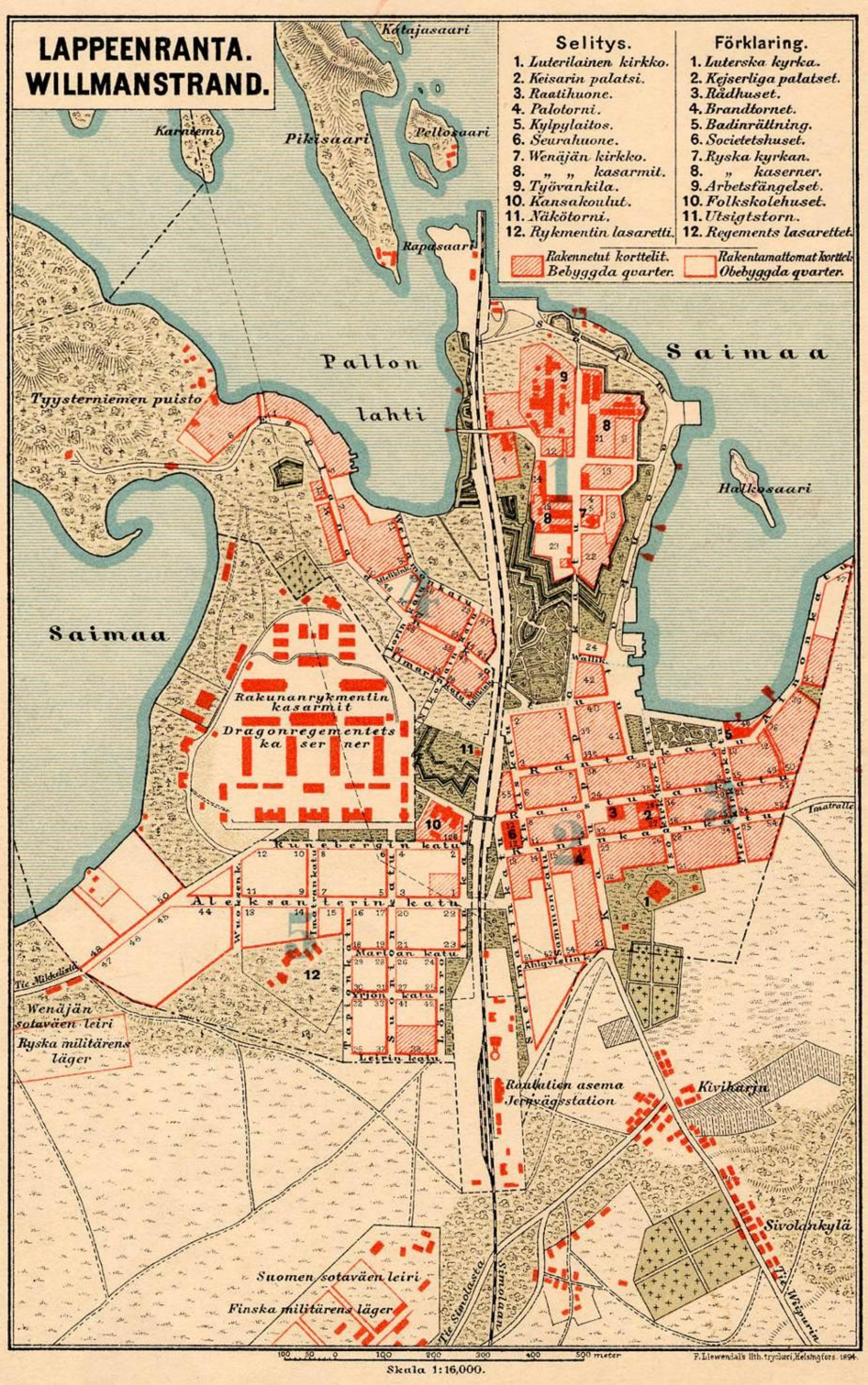 Map of Lappeenranta from 1894. Creator unknown, published by the Travellers’ Association, printed by the Frans Liewendal Lithographic Printing Company. Based on the 1892 city plan also known as the Emperor’s Plan by Albin Hannikainen.